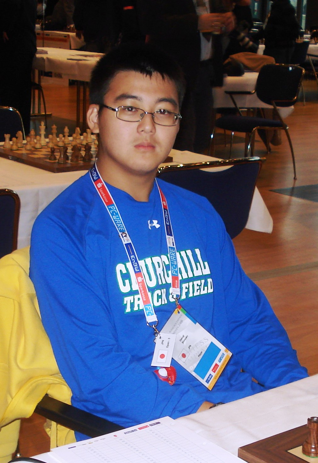 Shinsaku Uesugi at Chess Olympiad, Dresden 2008.